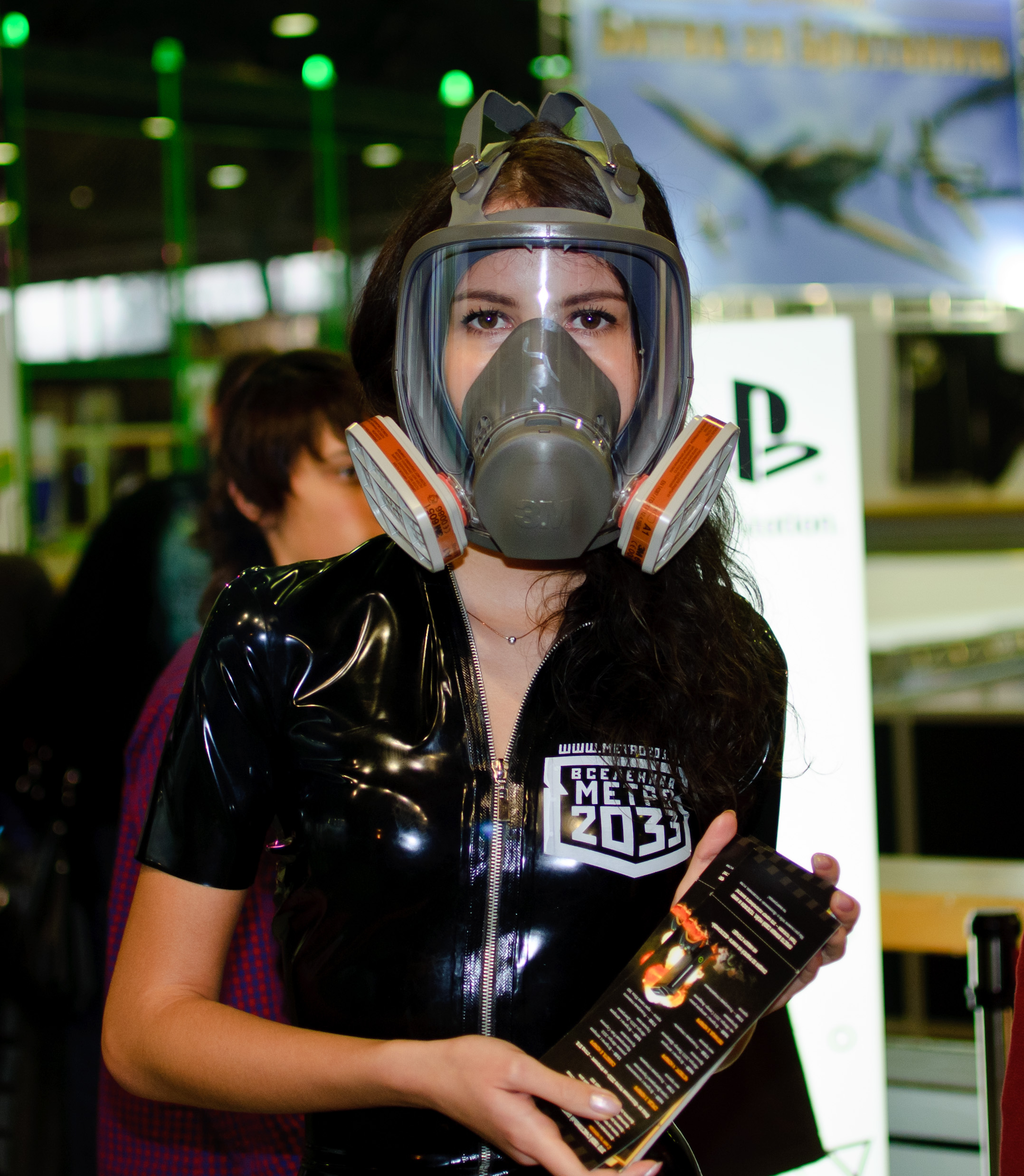 Igromir 2010